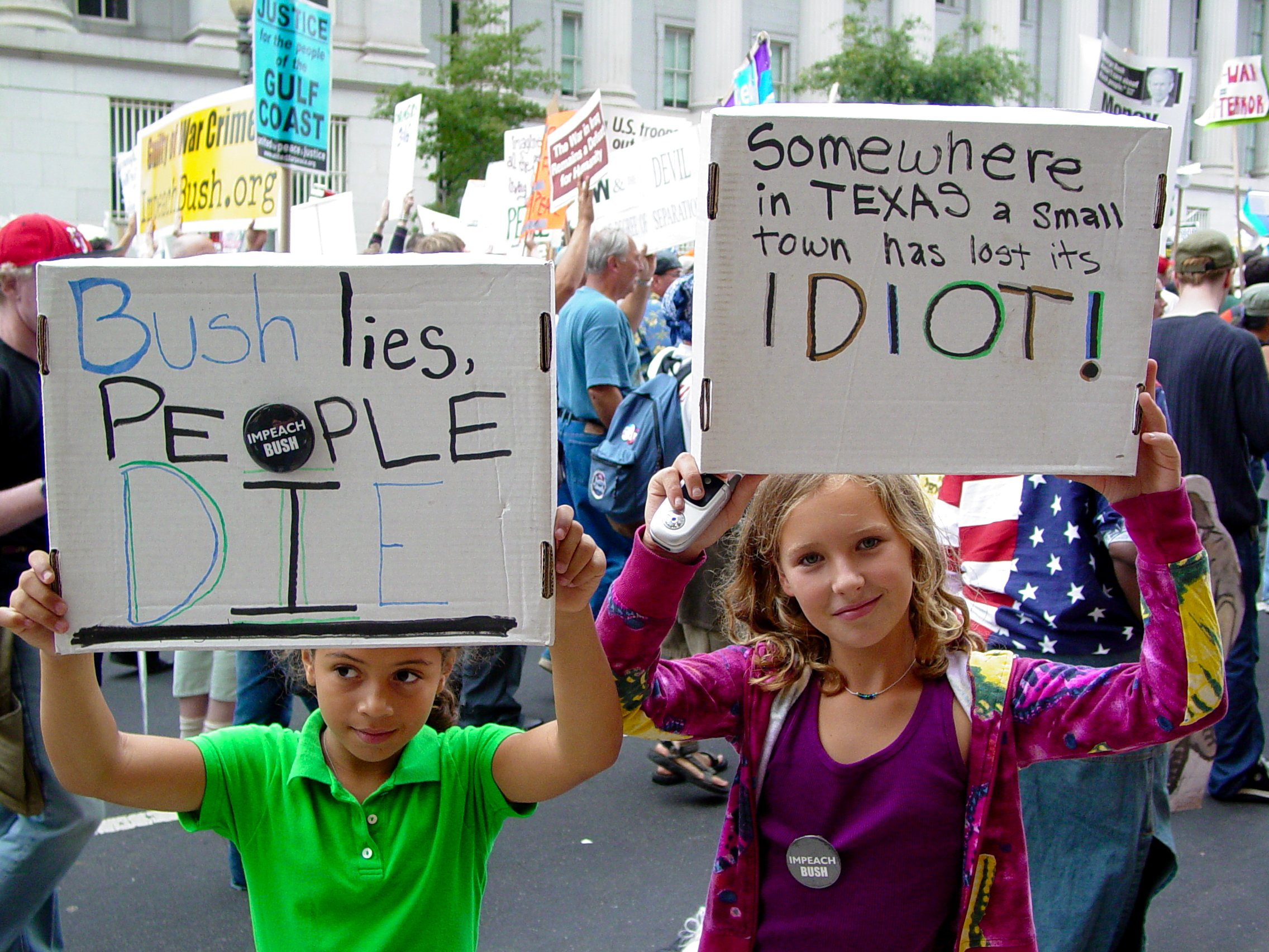 Two girls hold up signs at the September 24, 2005 anti-war protest in Washington DC.